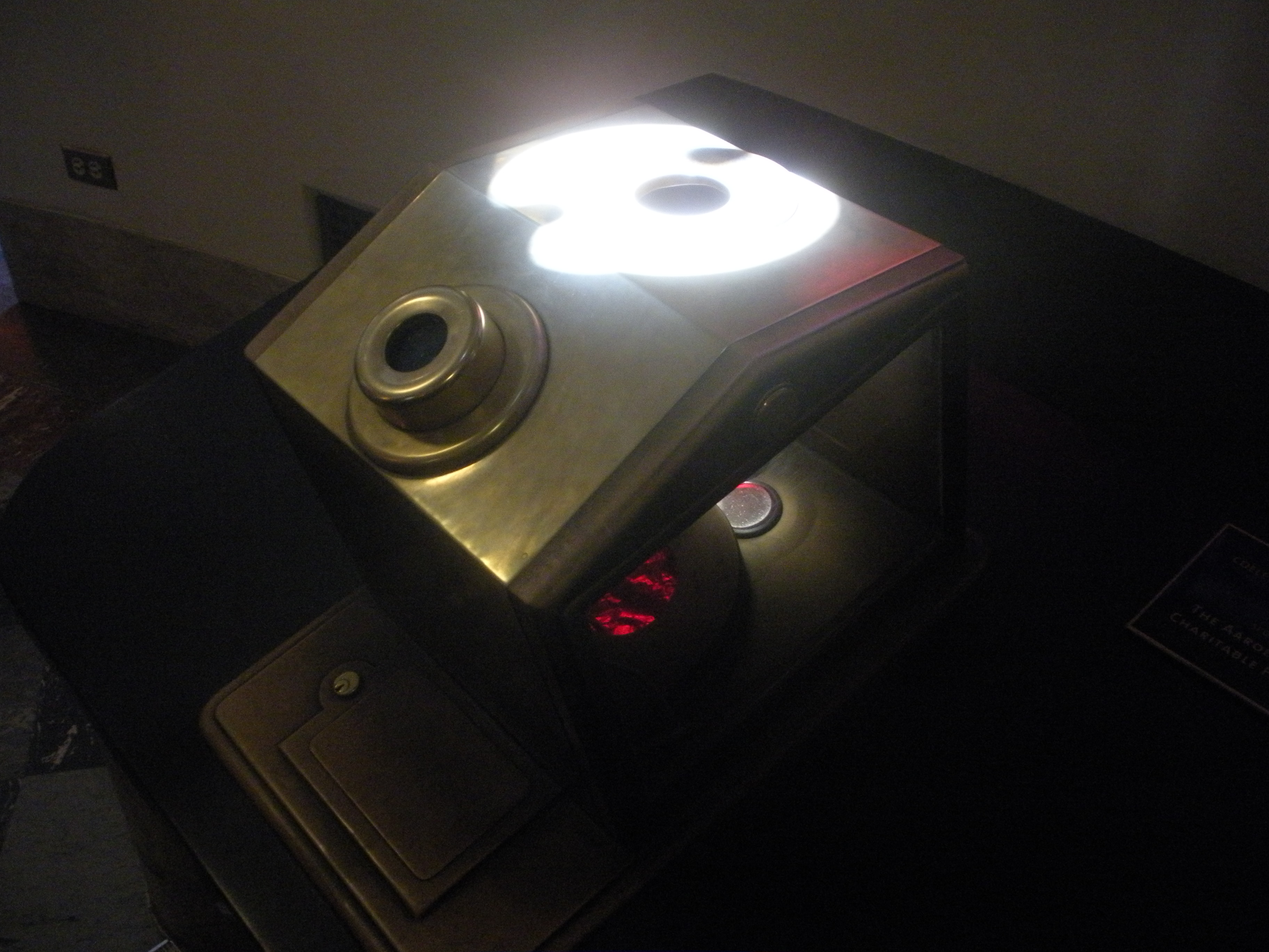 This is a spectrohelioscope at Griffith Observatory, tuned to H-alpha. Originally posted to my Flickr